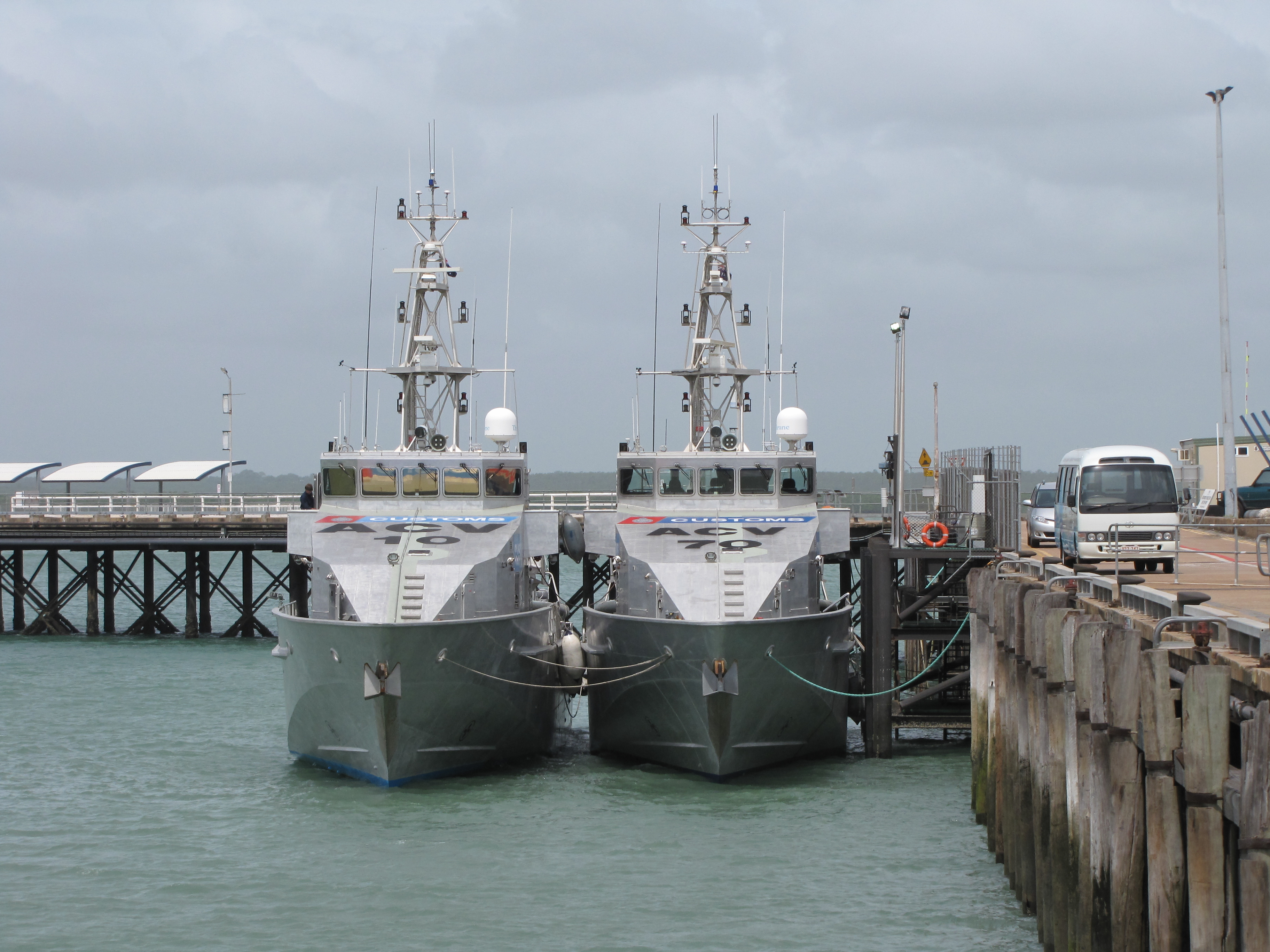 Australian Customs Vessels 10 Roebuck Bay and 70 Dame Roma Mitchell moored at Darwin's Stokes Hill Wharf in January 2010.